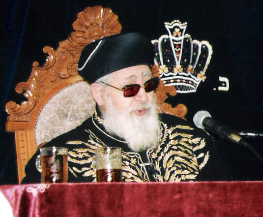 Rabbi Ovaid Yosef